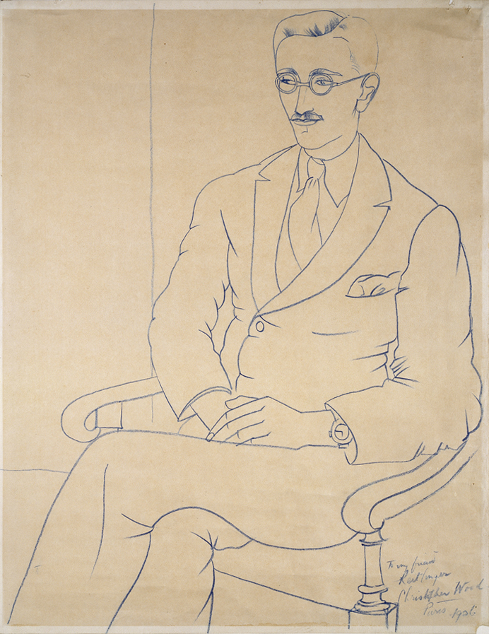 Portrait of Gerald Reitlinger by (John) Christopher Wood, 1926 (Ashmolean Museum, number: WA1978.51)